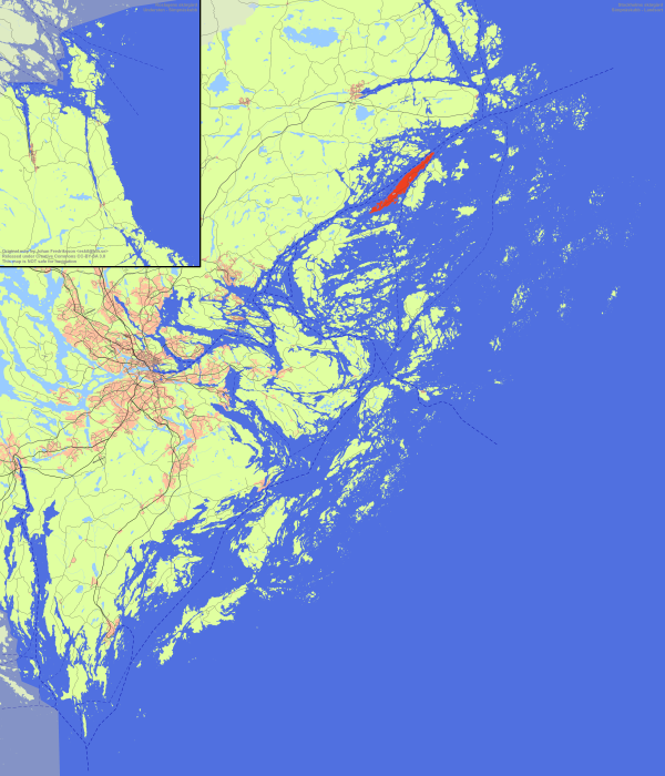 Location of the island Yxlan